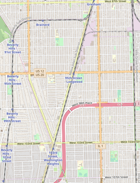 Contains map data © OpenStreetMap contributors, made available under the terms of the Open Database License (ODbL). The ODbL does not require any particular license for maps produced from ODbL data; map tiles produced by the OpenStreetMap foundation are licensed under the CC-BY-SA-2.0 licence, but maps produced by other people may be subject to other licences.Open Database LicenseODbL